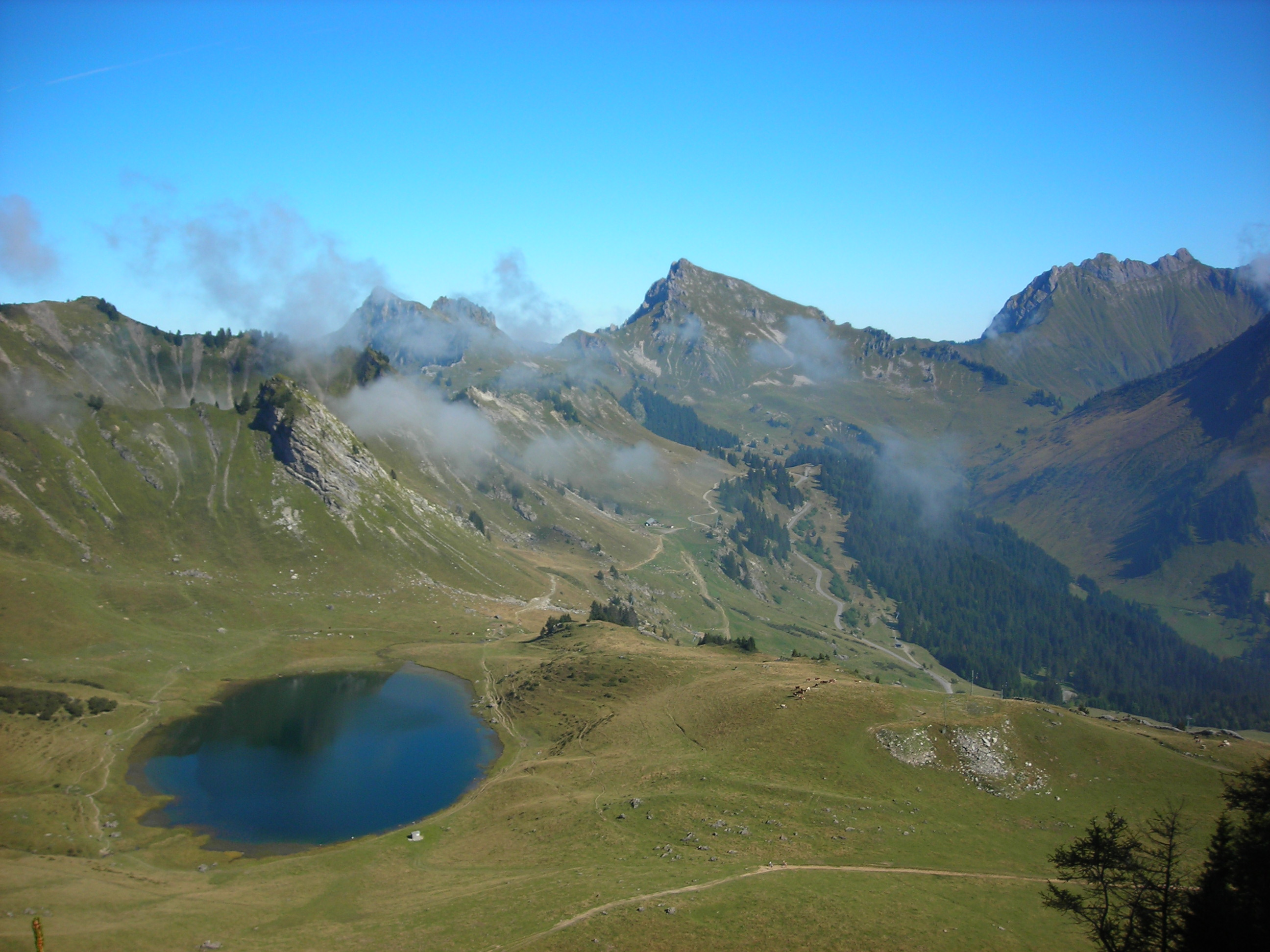 Lac de Roy seen from above.